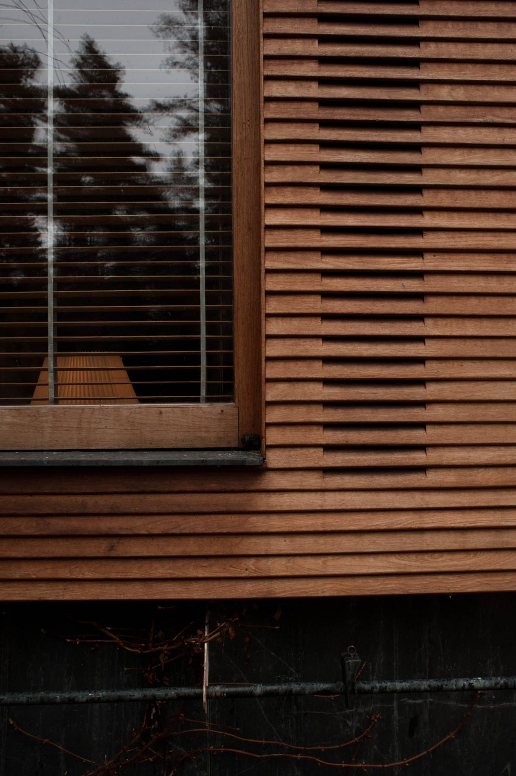 Wooden particular, villa Mairea